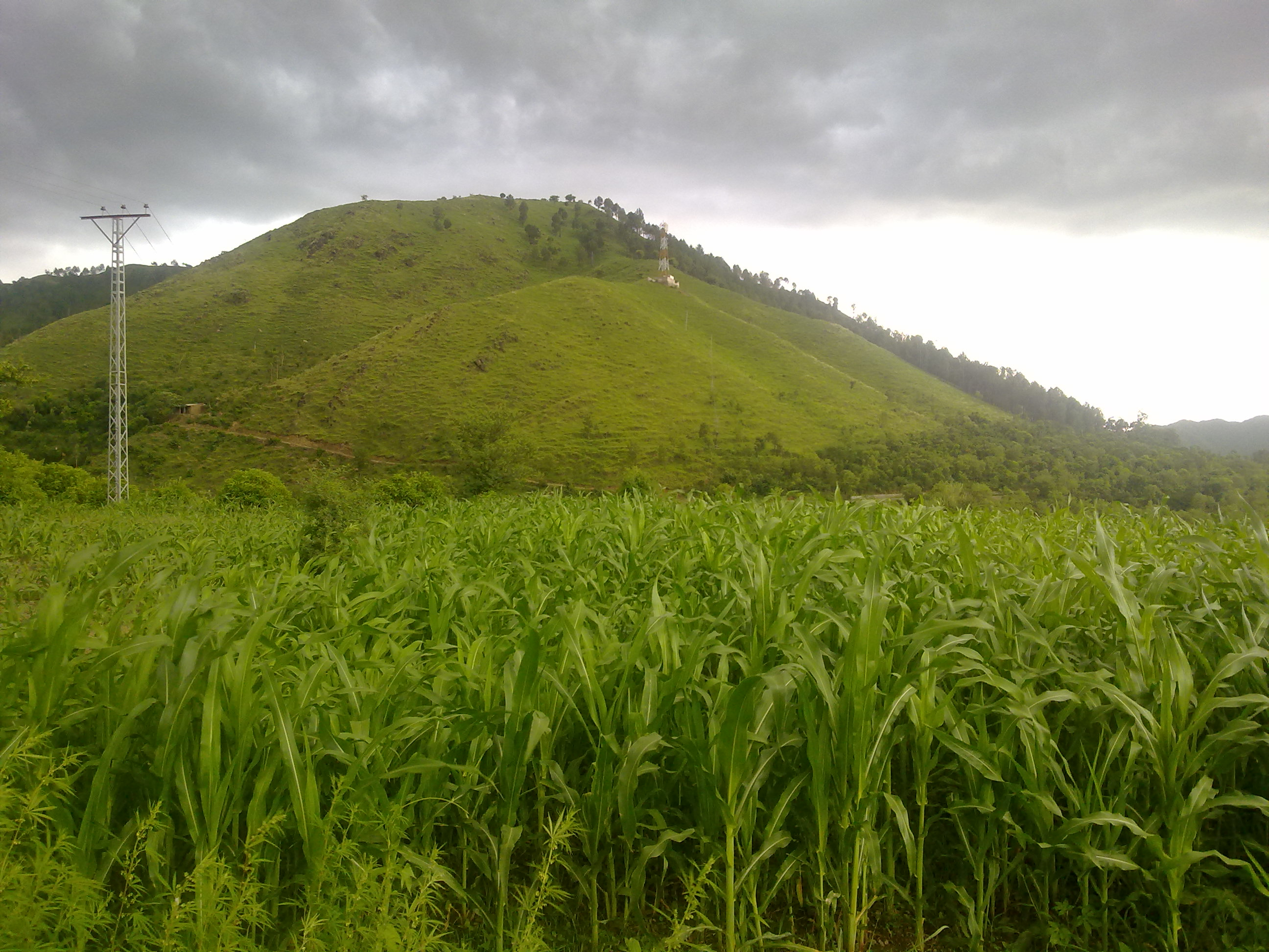 A Photo Of Mountain